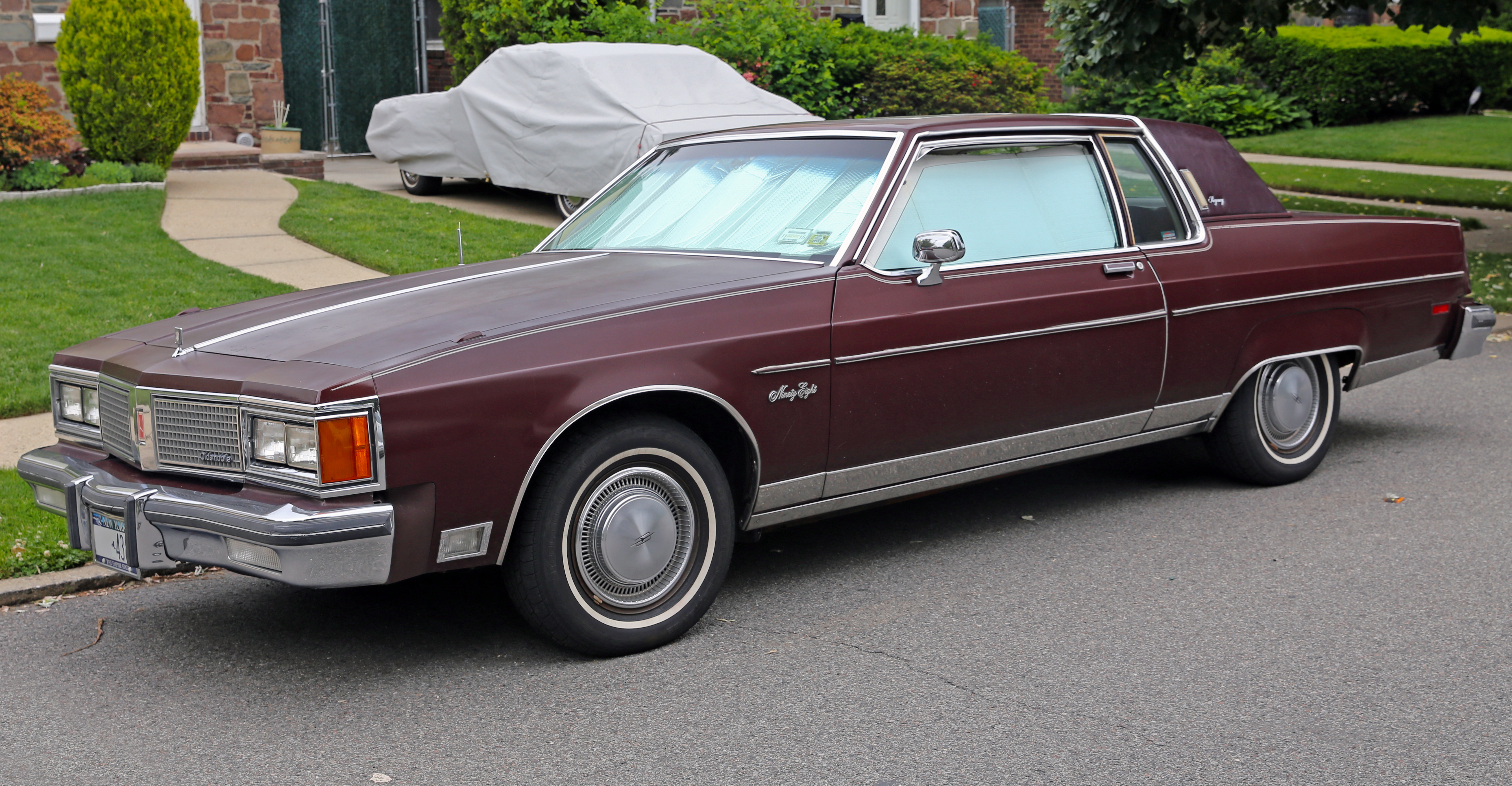 A 1984 Oldsmobile 98 Regency two-door coupe with Oldsmobile's 5-liter four-barrel V8, assembled in Lansing, MI.